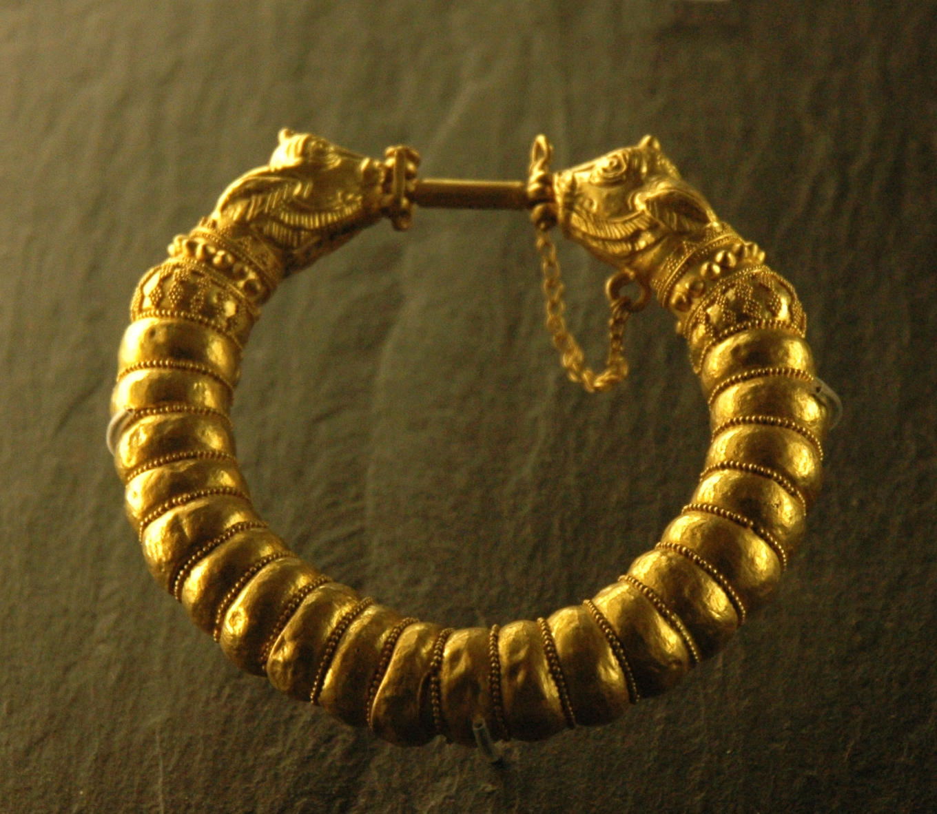 Bracelet (one of a pair) from Amrit, Syria, 4th century BC.